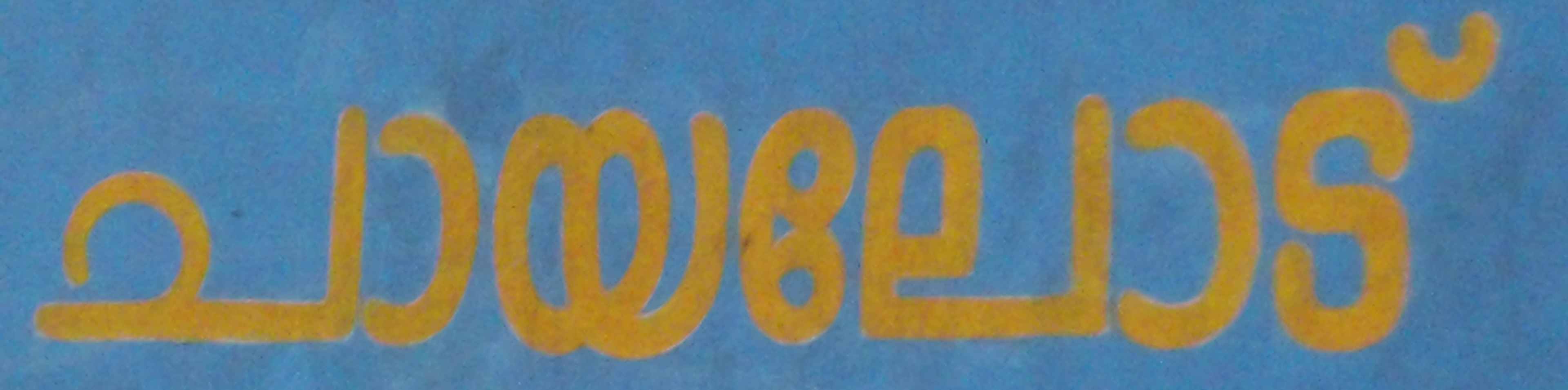 Chayalode in Malayalam, Native Language